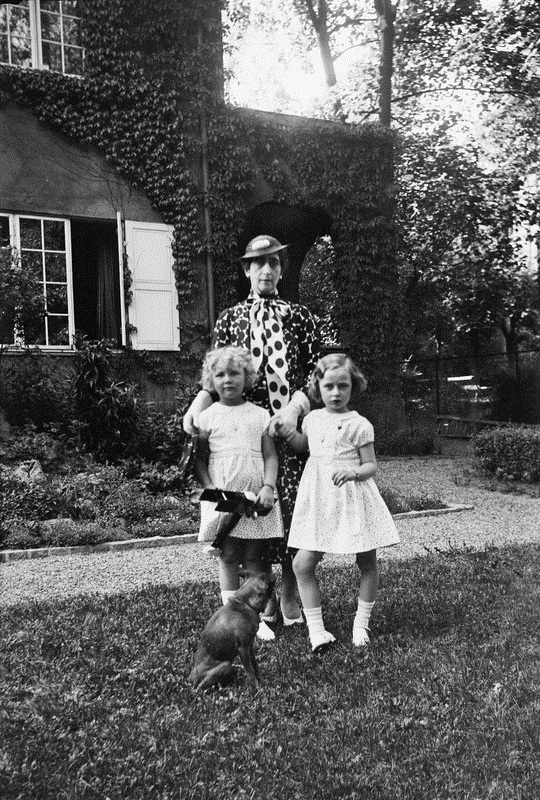 Queen Maud of Norway with her daughters Ragnhild and Astrid